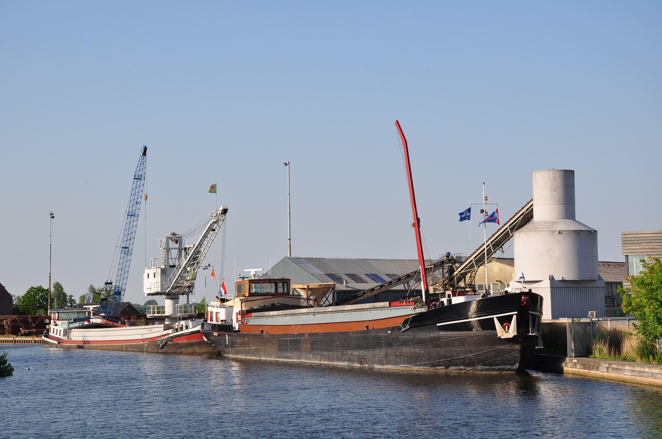 Harbour on the Kromme Mijdrecht (a waterway) in Woerdense Verlaat (municipality of Nieuwkoop, province South Holland, Netherlands).